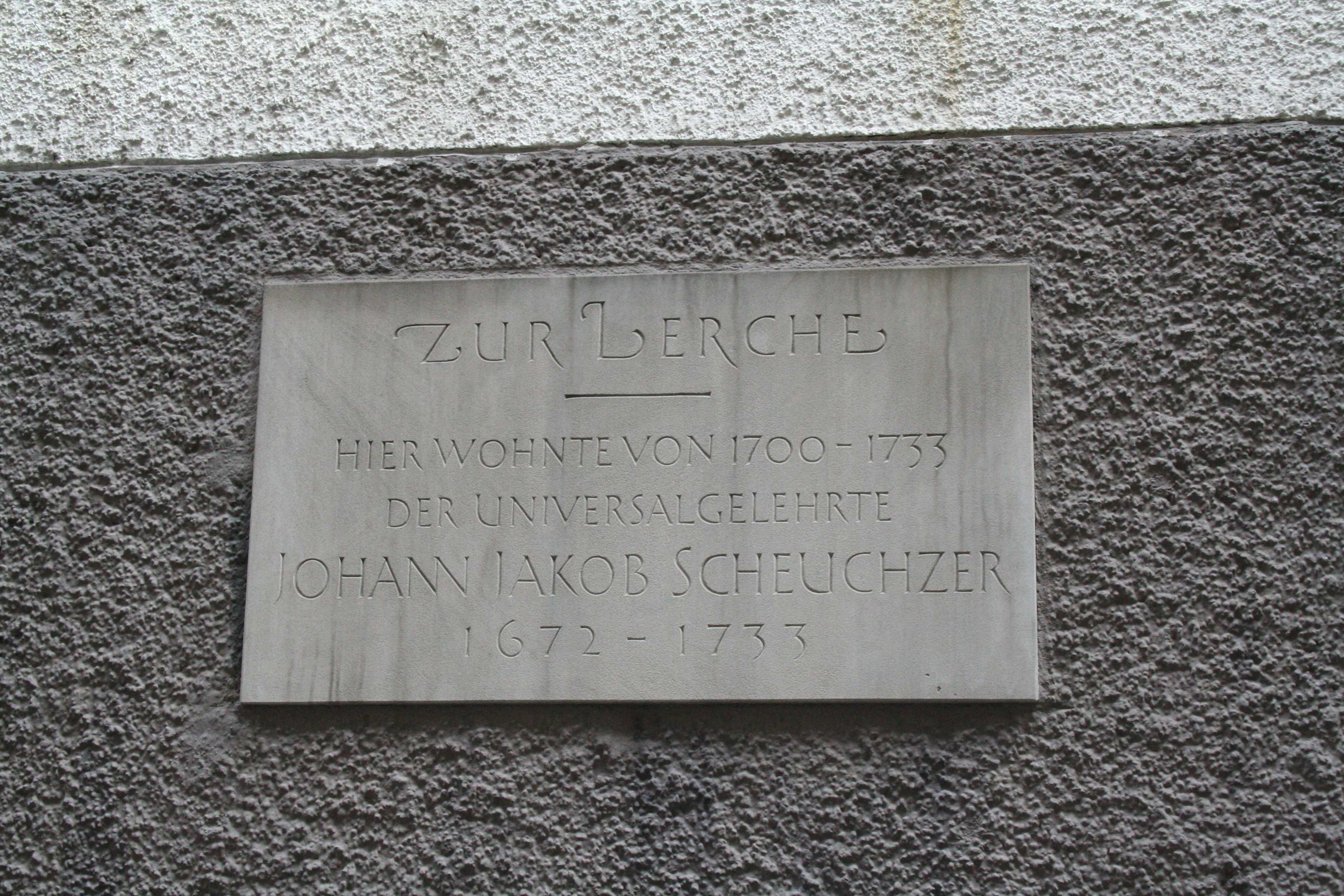 Zürich, Trittligasse (Altstadt quarter) : Memorial plate «Haus zur Lerche», the former home of Johann Jakob Scheuchzer (* 1672; † 1733)